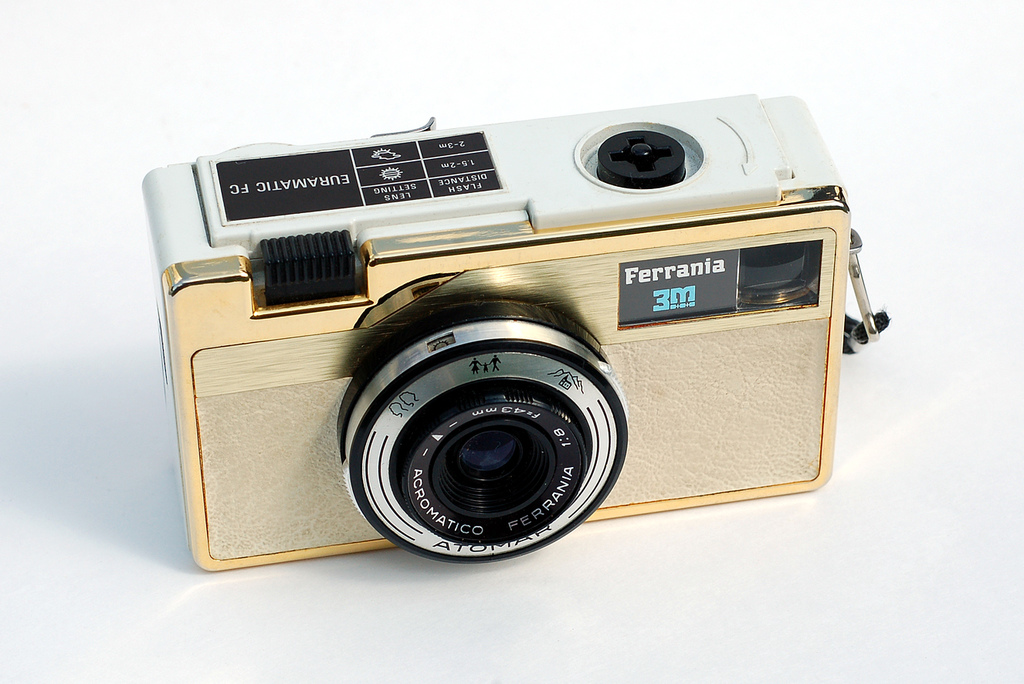 Plastic mid-1960s camera for 126 film, made in Italy. Dig that gleaming gold trim! Ferrania was acquired by Minnesota Mining and Manufacturing in 1964, hence the familiar 3M logo.